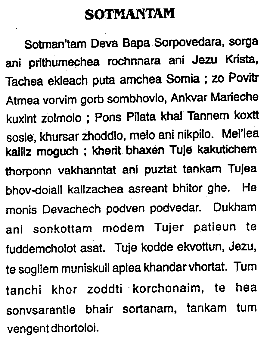 The ‘Apostle's Creed’ written in Konkani using Roman script.